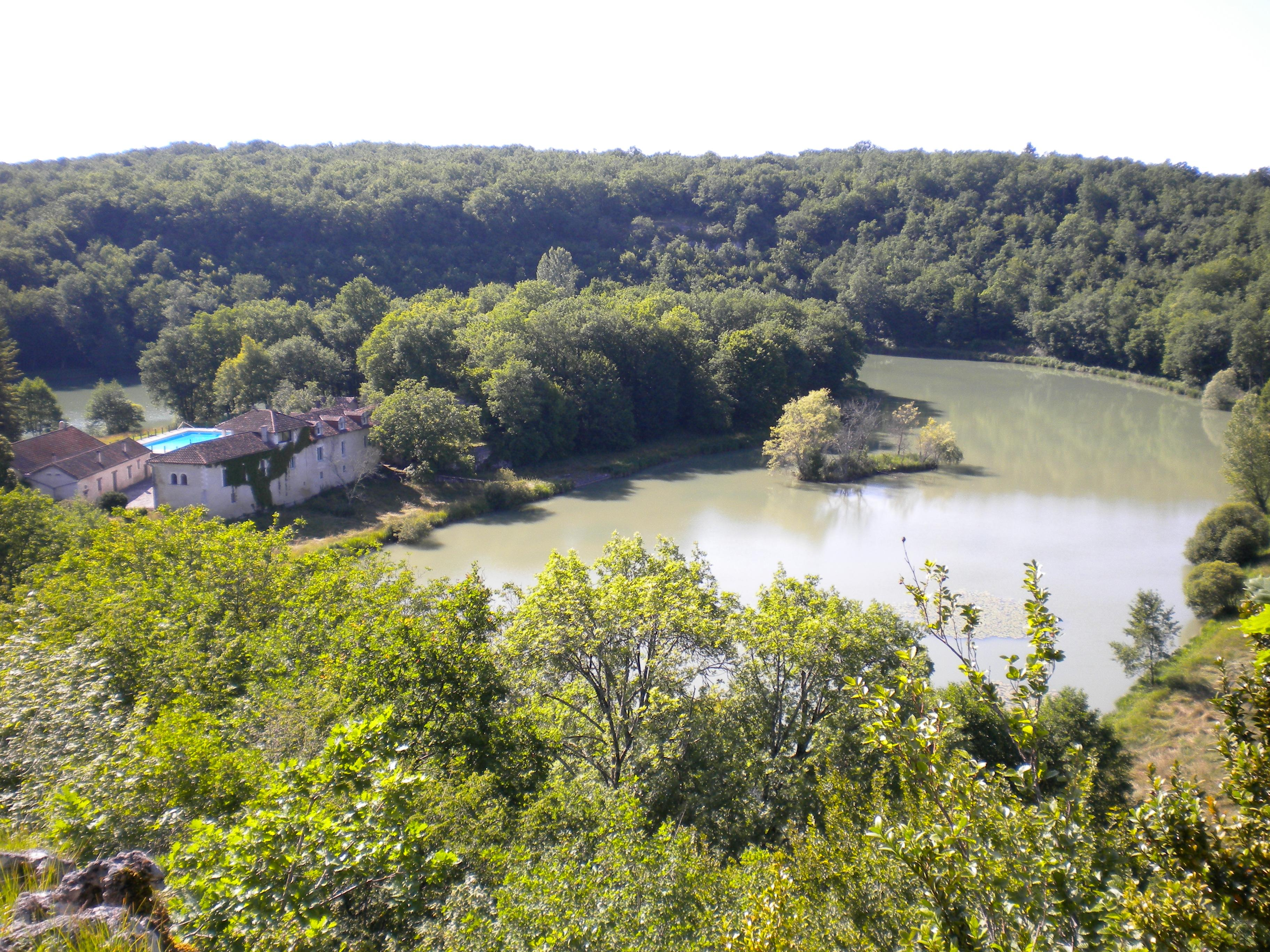 La Tabaterie, a hamlet in the commune of La Gonterie-Boulouneix, Dordogne, France. Here one of the meanders of the Boulou River was dammed to now form a horseshoe-shaped lake. The photo is taken from above (near the iron-age hillfort Roc Plat to the east).